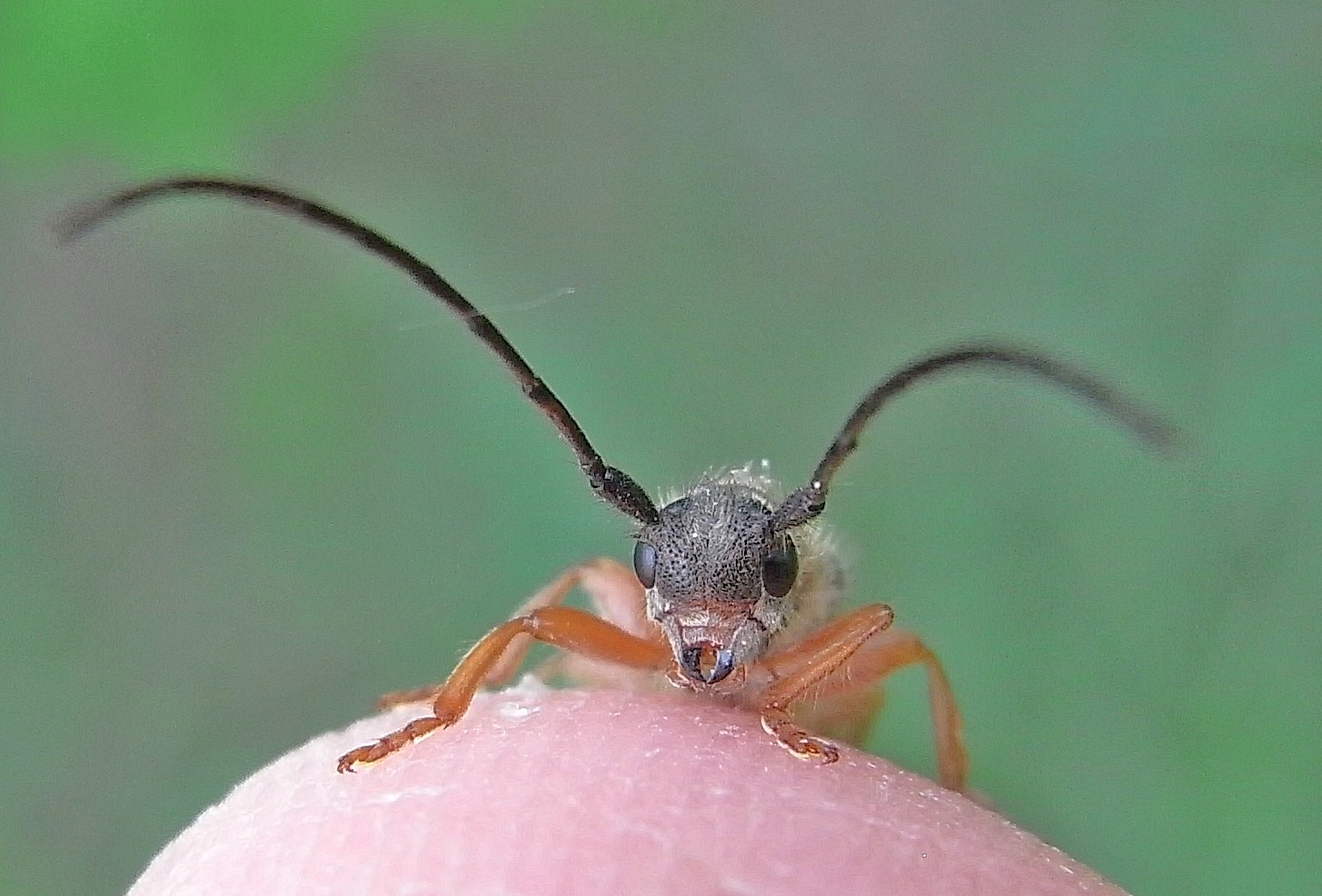 Oberea euphorbiae from Hungary at Davod (West of Mohacs) at 2010-05-11Ricoh R8